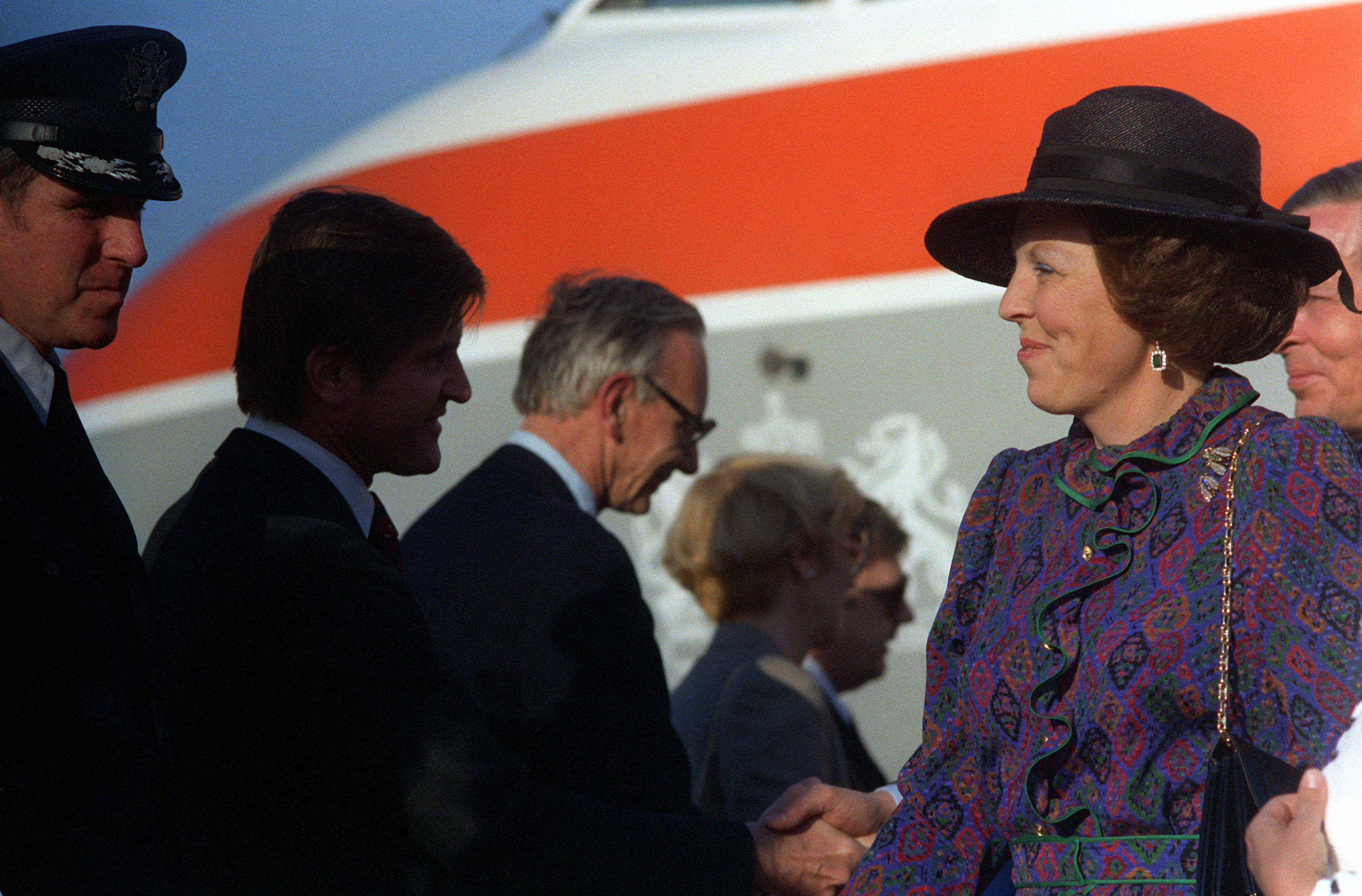 Queen Beatrix of the Netherlands is welcomed upon arrival for a visit to the United States.